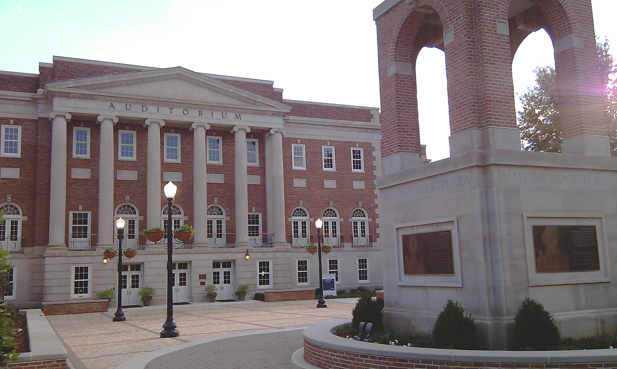 View from the northeast of Malone Hood Plaza and Foster Auditorium on the campus of the University of Alabama in Tuscaloosa, Alabama.